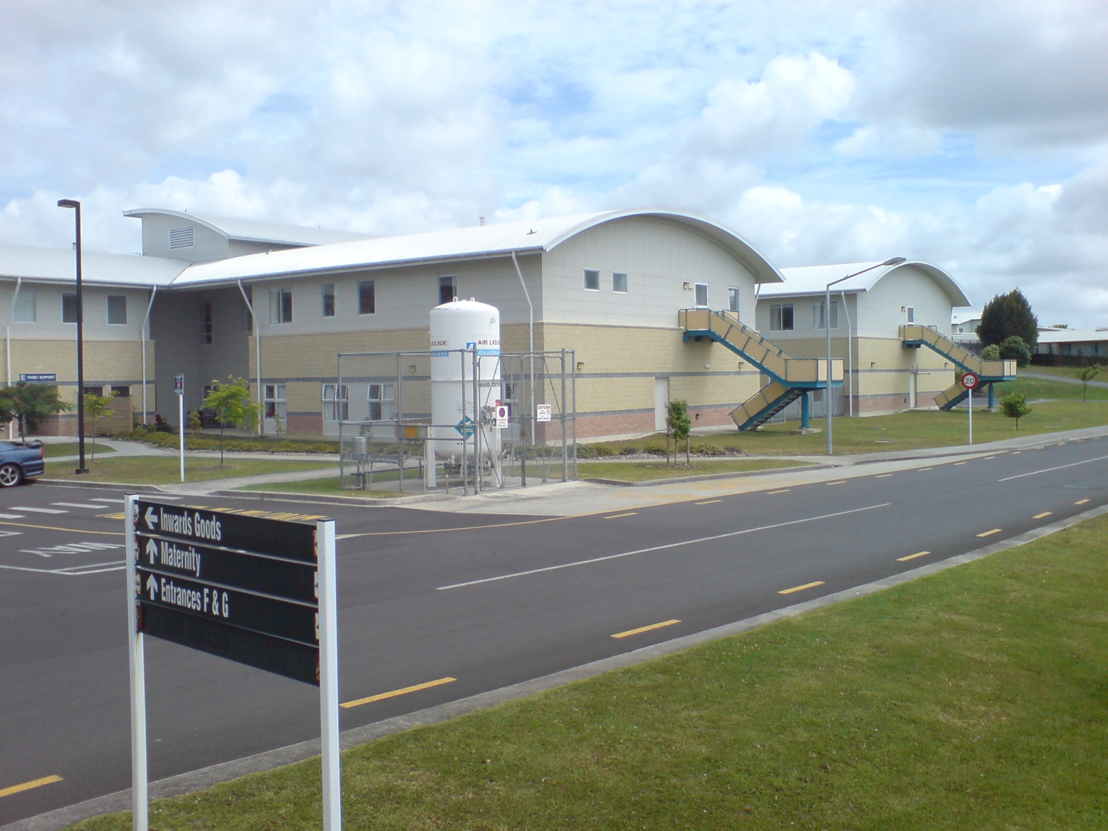 Some buildings near the eastern ennd of Waitakere Hospital, Waitakere City, New Zealand.